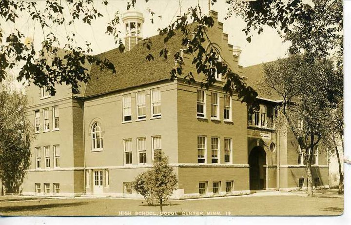 The Dodge Center school as it looked circa 1912